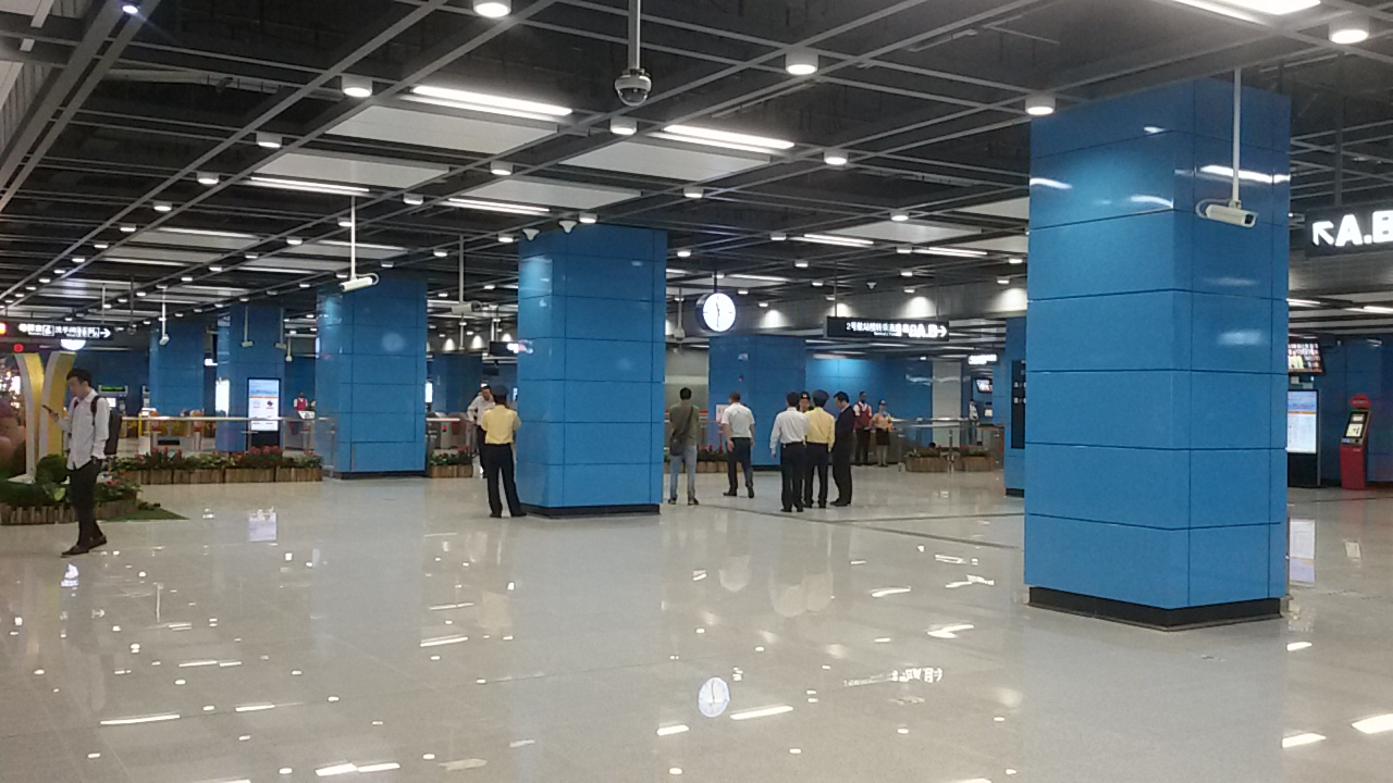 Station Concourse for Airport North Station, Guangzhou Metro.